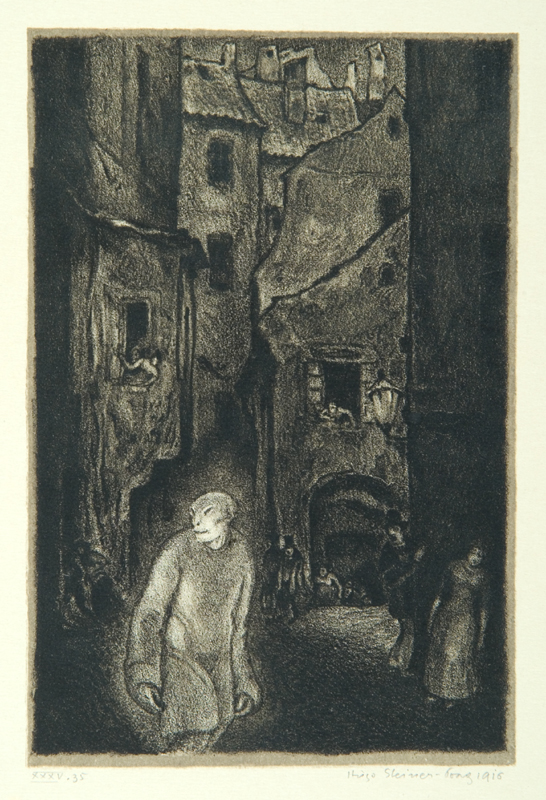 Description: A page from the book "Der Golem, Prager Phantasien, Lithographien zu Gustav Meyrinks Roman, von Hugo Steiner-Prag" Read the entire book Creator: Steiner-Prag, Hugo, 1880-1945 Object Origin: Leipzig Medium: Artists' books Date: 1916 Call Number: NC 251 S73 G6 Persistent URL: Repository: Leo Baeck Institute, 15 West 16th Street, New York, NY 10011 Rights Information: No known copyright restrictions; may be subject to third party rights. For more copyright information, click here. See more information about this image and others at CJH Digital Collections. Digital images created by the Gruss Lipper Digital Laboratory at the Center for Jewish History